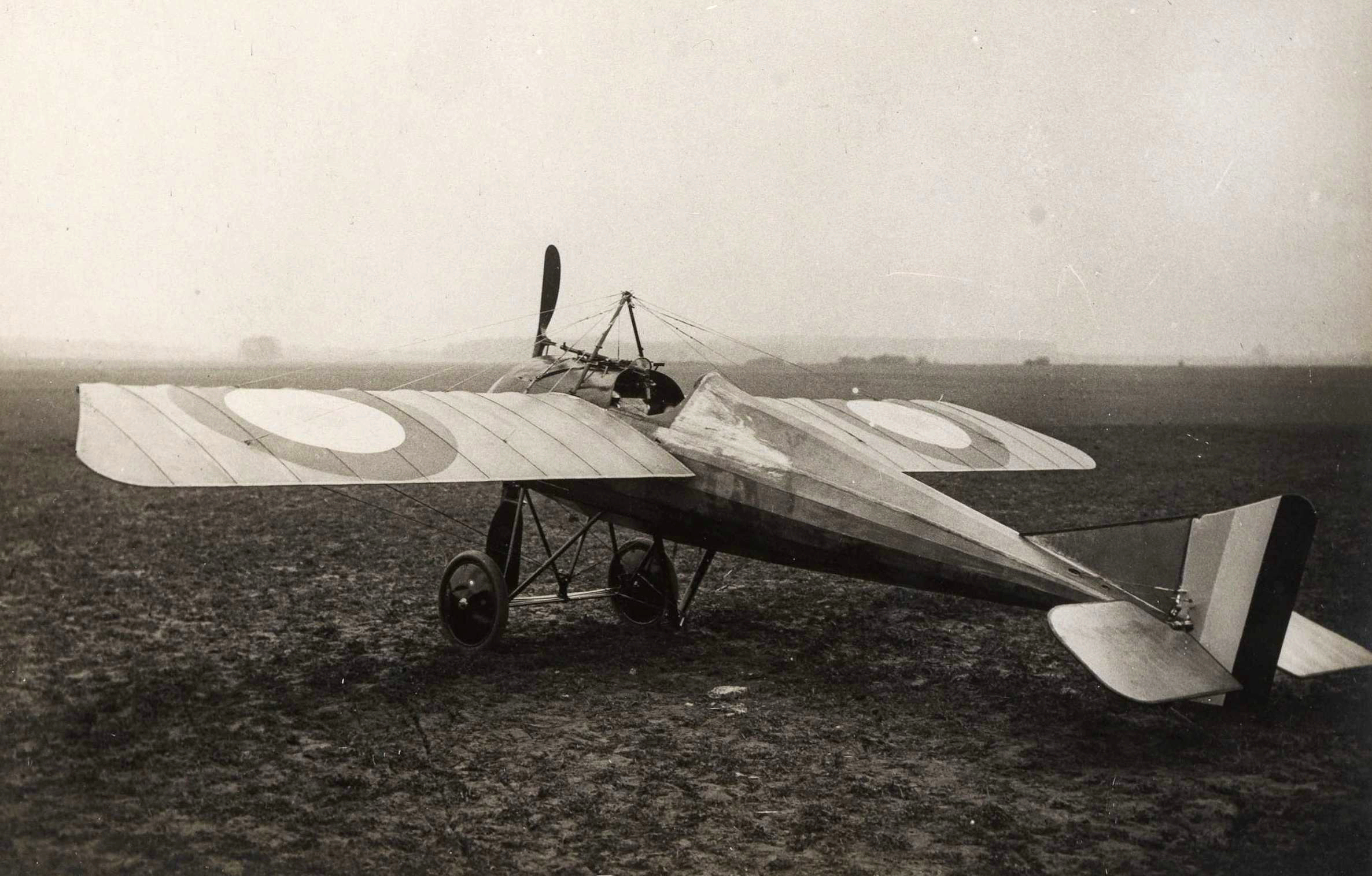 Morane-Saulnier N with fixed machine gun at Breuil-le-Sec aerodrome 2 Feb 1916